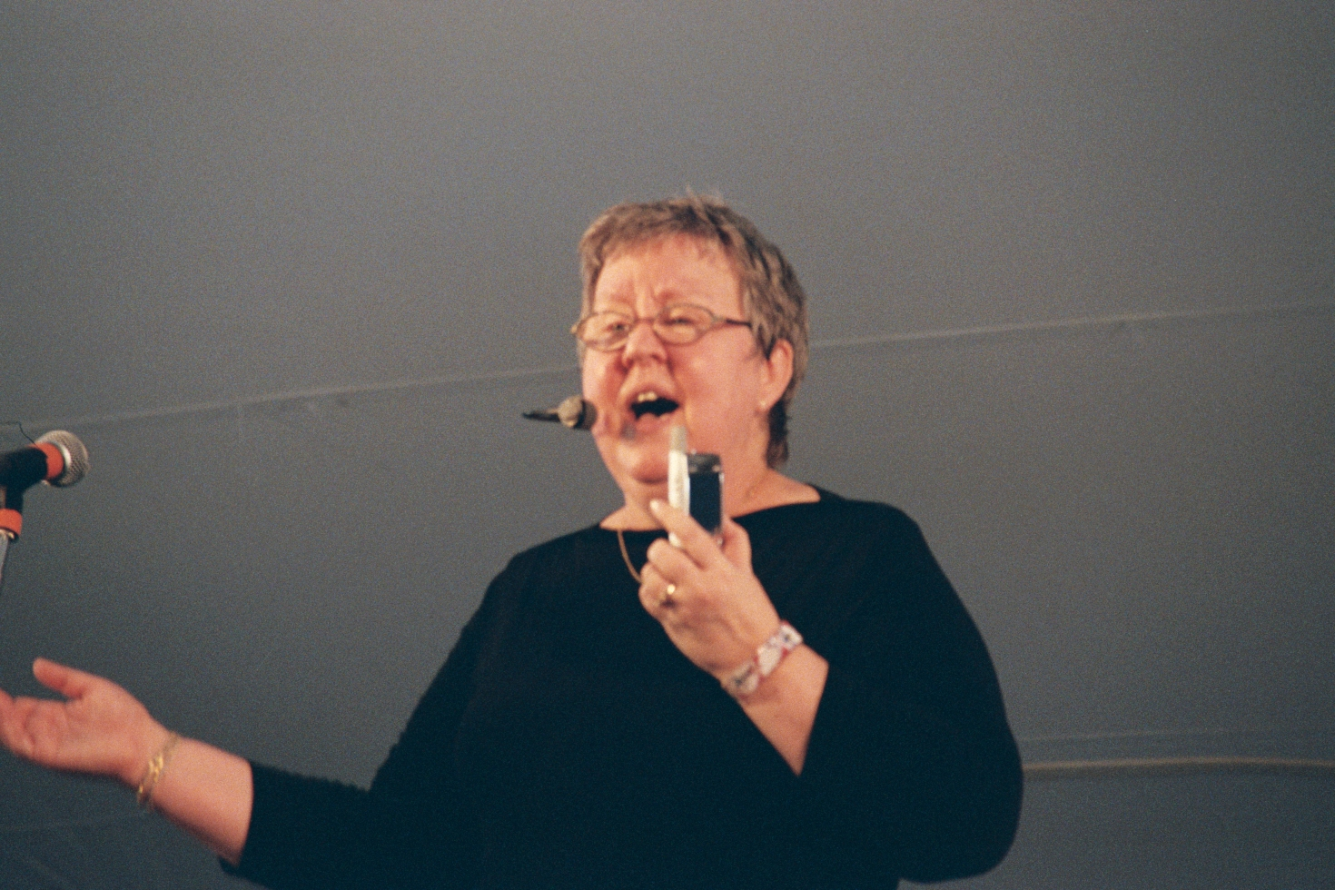 Christine Lavin on the Custom House Stage at New Bedford Summerfest - singing into her cell phone to a songwriter in New York City.